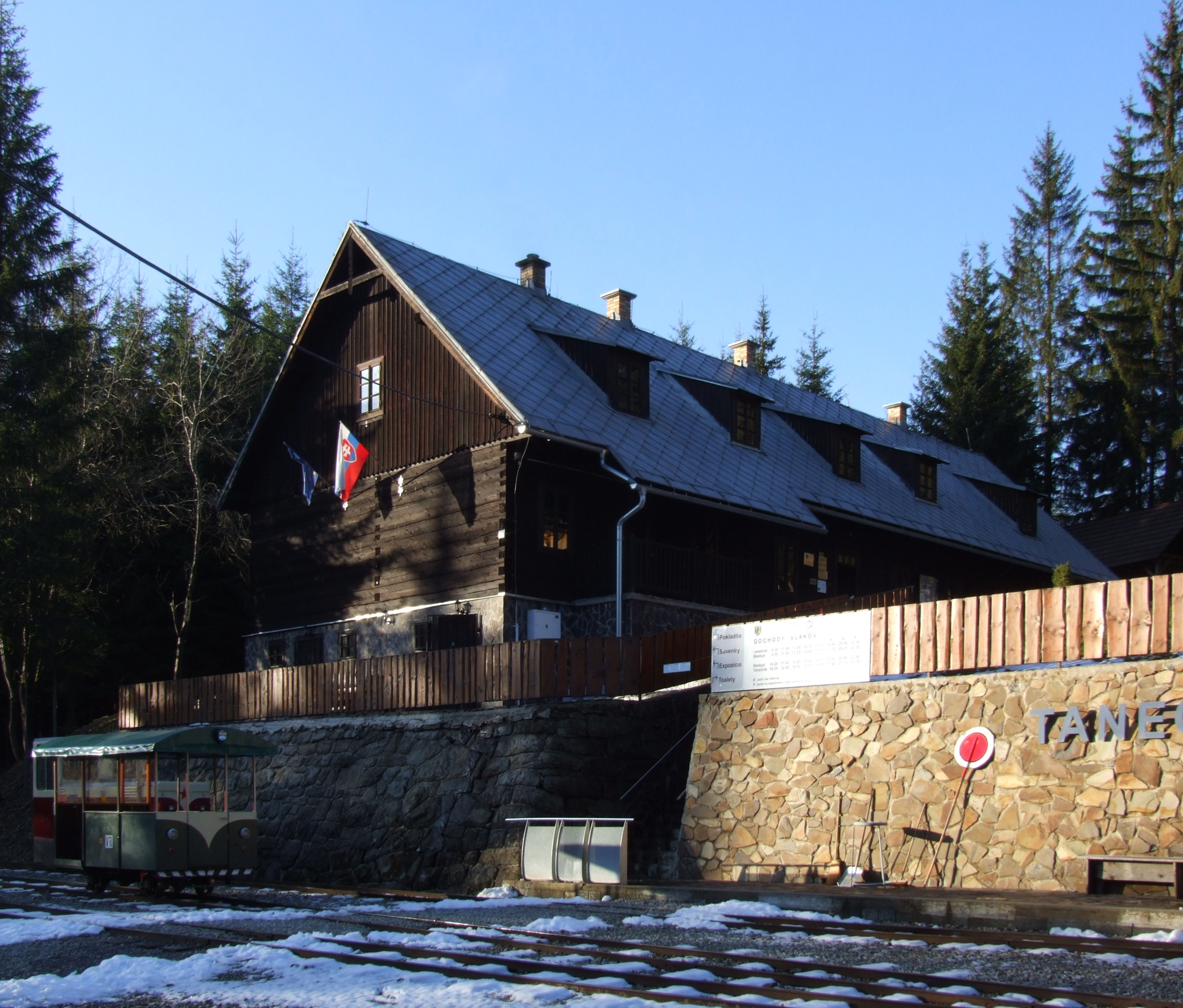 Train station Tanečník (Oravská Lesná), Slovakia